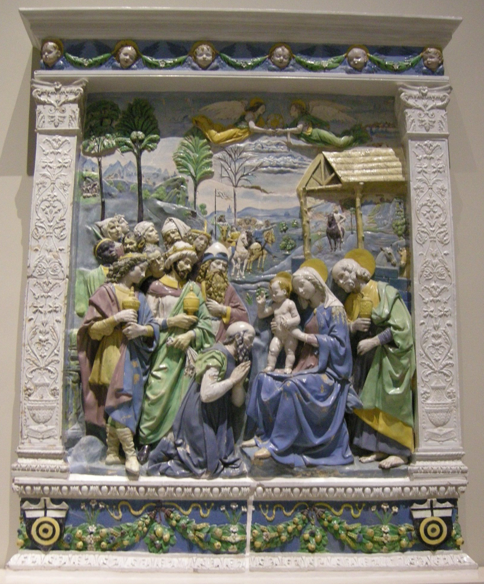 Altarpiece depicting the three wise men with their attendants, offering gifts to the Holy Family. In the sky above are two angels carrying the Star of Bethlehem. The coat of arms of the Albizzi family appear on either end of the base.